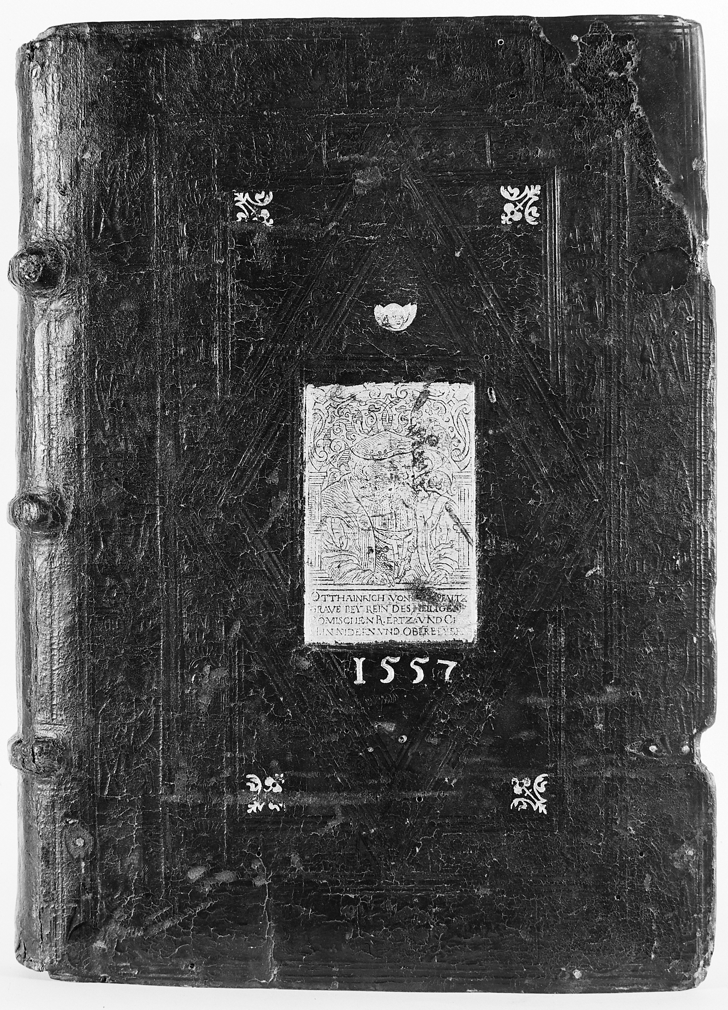 Photograph to show binding Rare Books Keywords: Theophrastus